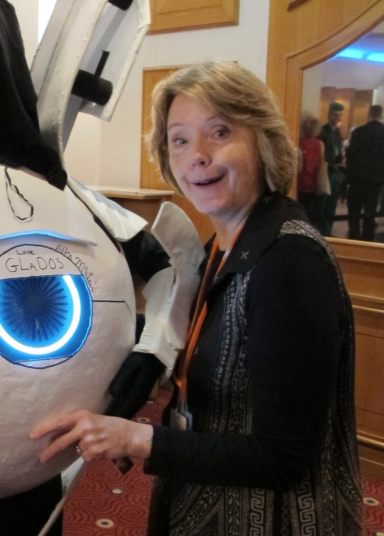 Photo of Ellen McLain at a signing at Kitacon 2012, Birmingham, UK on the 14th April 2012